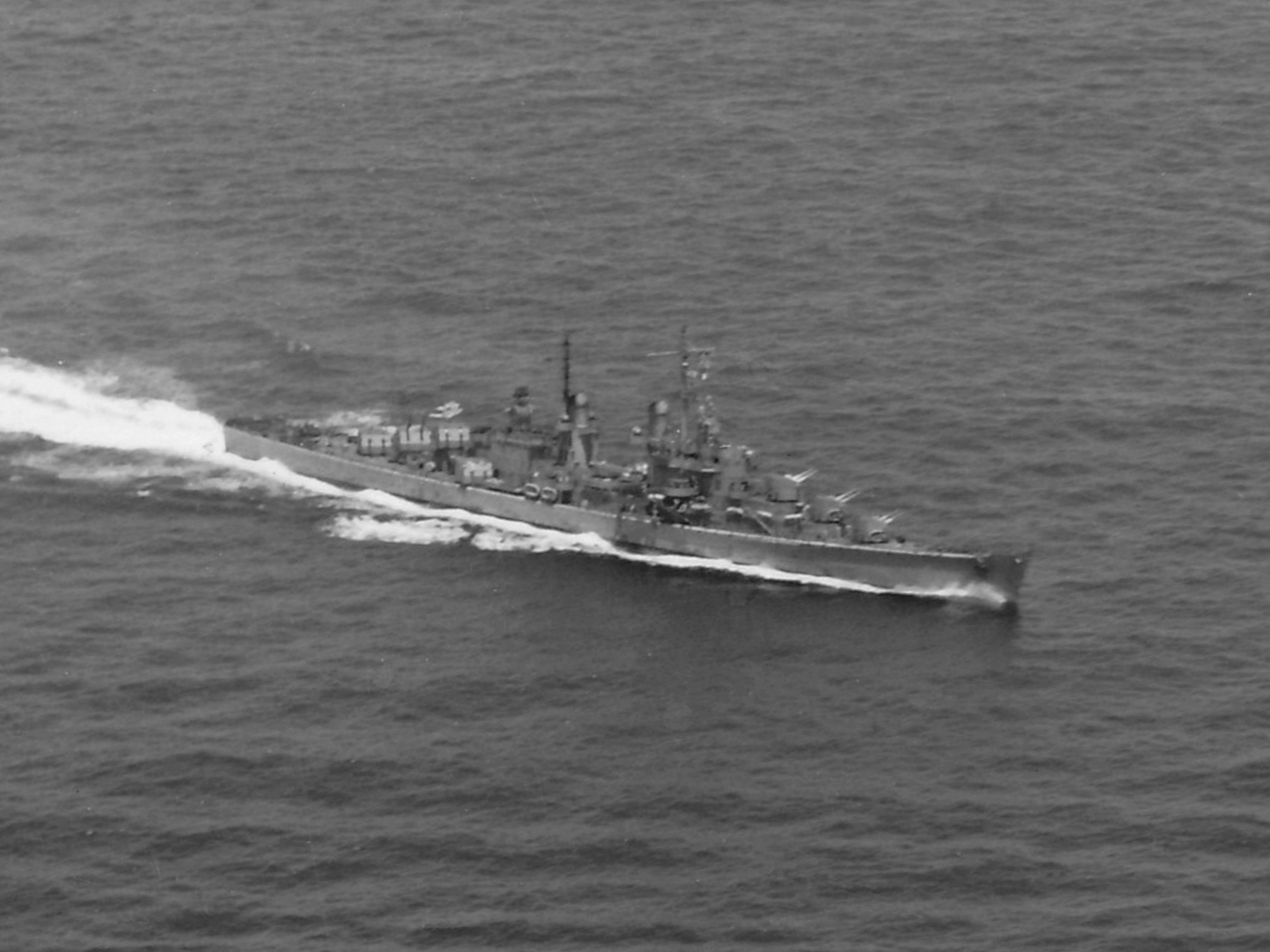 The U.S. Navy light cruiser USS Juneau (CL-52) underway at 1154 hrs on 26 October 1942, during the Battle of the Santa Cruz Islands. Shortly before noon on 26 October 1942, Grumman TBF-1 Avengers were returning to the USS Hornet (CV-8) only to find the carrier dead in the water. The aircraft were signaled to head for USS Enterprise (CV-6). Juneau also read the the signal and thought it was intended for her and proceeded towards Enterprise, as shown here. Note that Juneau had been repainted to a solid pattern camouflage since 16 September 1942, when the last known photo was taken at Espiritu Santo, New Hebrides. The exact colour of paint applied is not known, surviving textual records show that Captain Swenson of Juneau wanted to paint her with a medium gray ("Mountbatten Pink") that was applied to U.S. Navy ships in the South Atlantic. However, it is unknown, if that colour was available at Tongatabu where the ship was in port for several days. Therefore the exact colour is unknown.